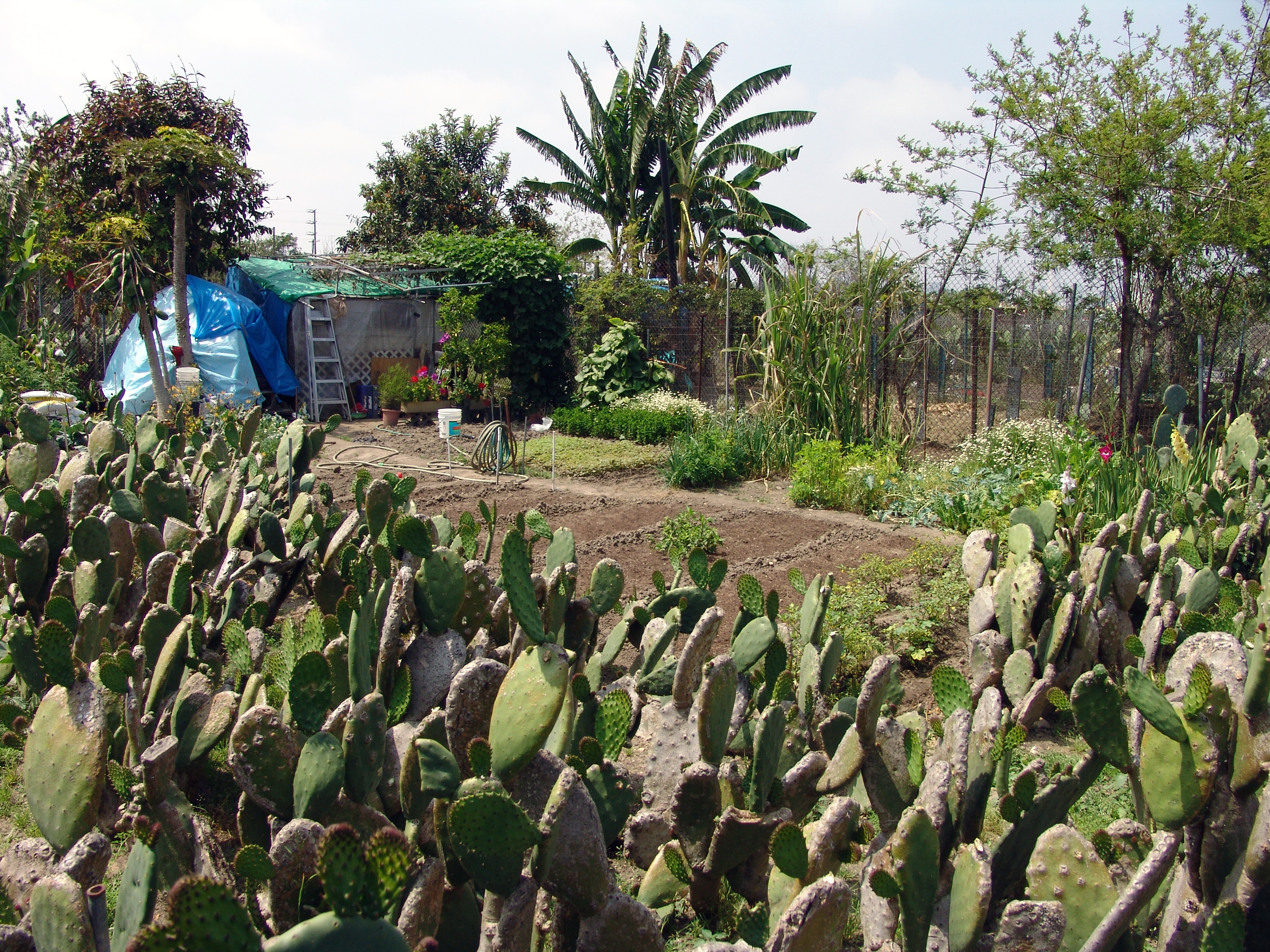 South Central Farm in the city of Los Angeles California. The 14 acres located at 41st and Alameda St. is one of the largest urban gardens in the United States.